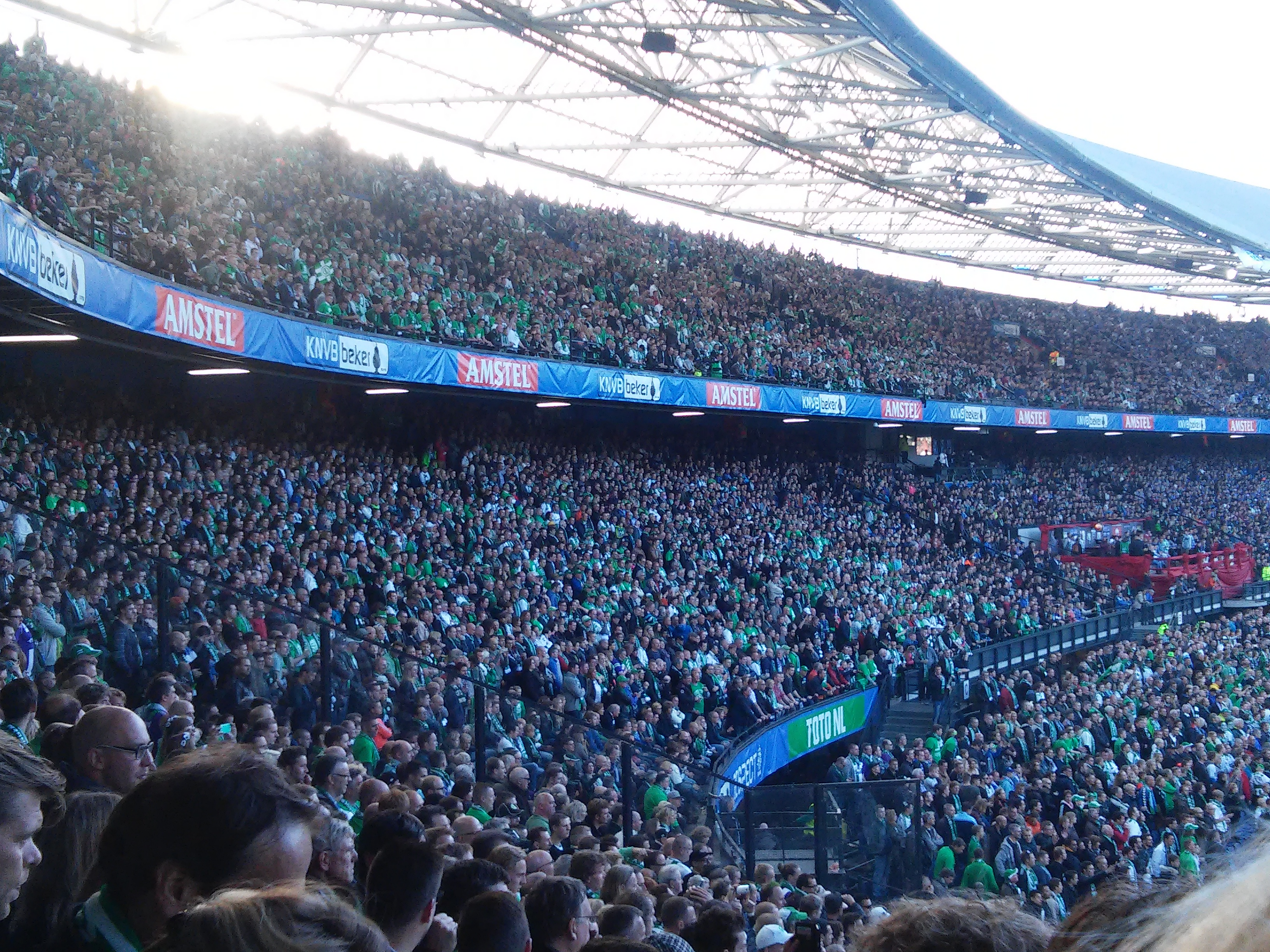 FC Groningen fans in the Kuip at Rotterdam watching the KNVB Cup final against PEC Zwolle